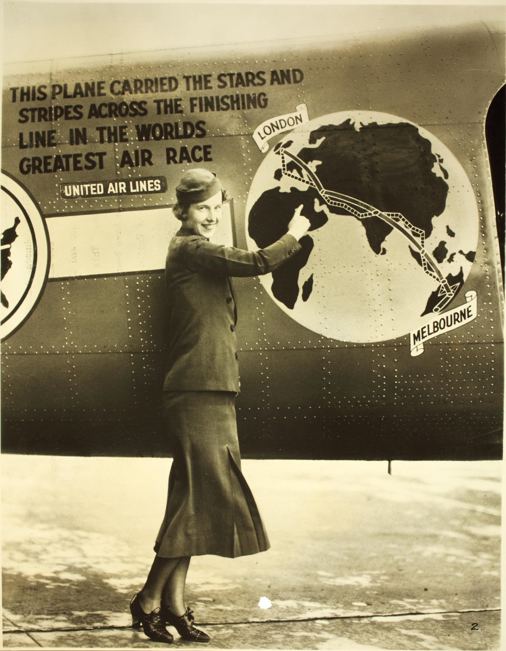 Catalog #: 10_0014022 Title: London Melbourne Race Additional Information: London Melbourne Race Tags: London Melbourne Race, London Melbourne Race Repository: San Diego Air and Space Museum Archive